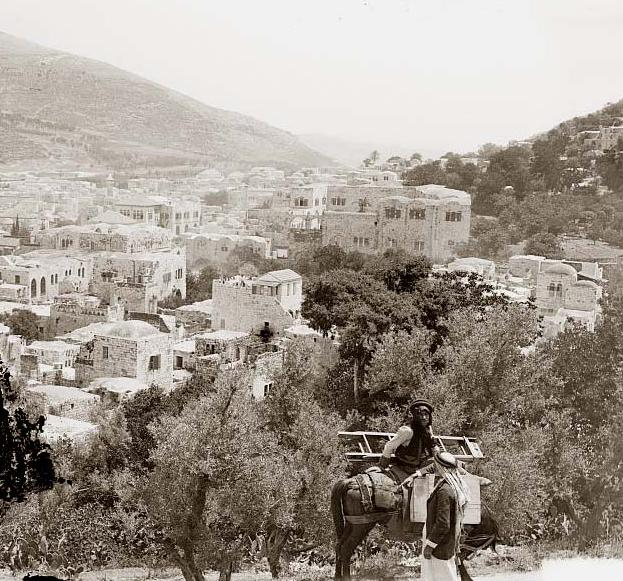 Nablus in 1898 Description given at the source: "(...) photo of Nablous, (Shechem). It was made in 1898 by the Photography Department of the American Colony Jerusalem." (text from same source)